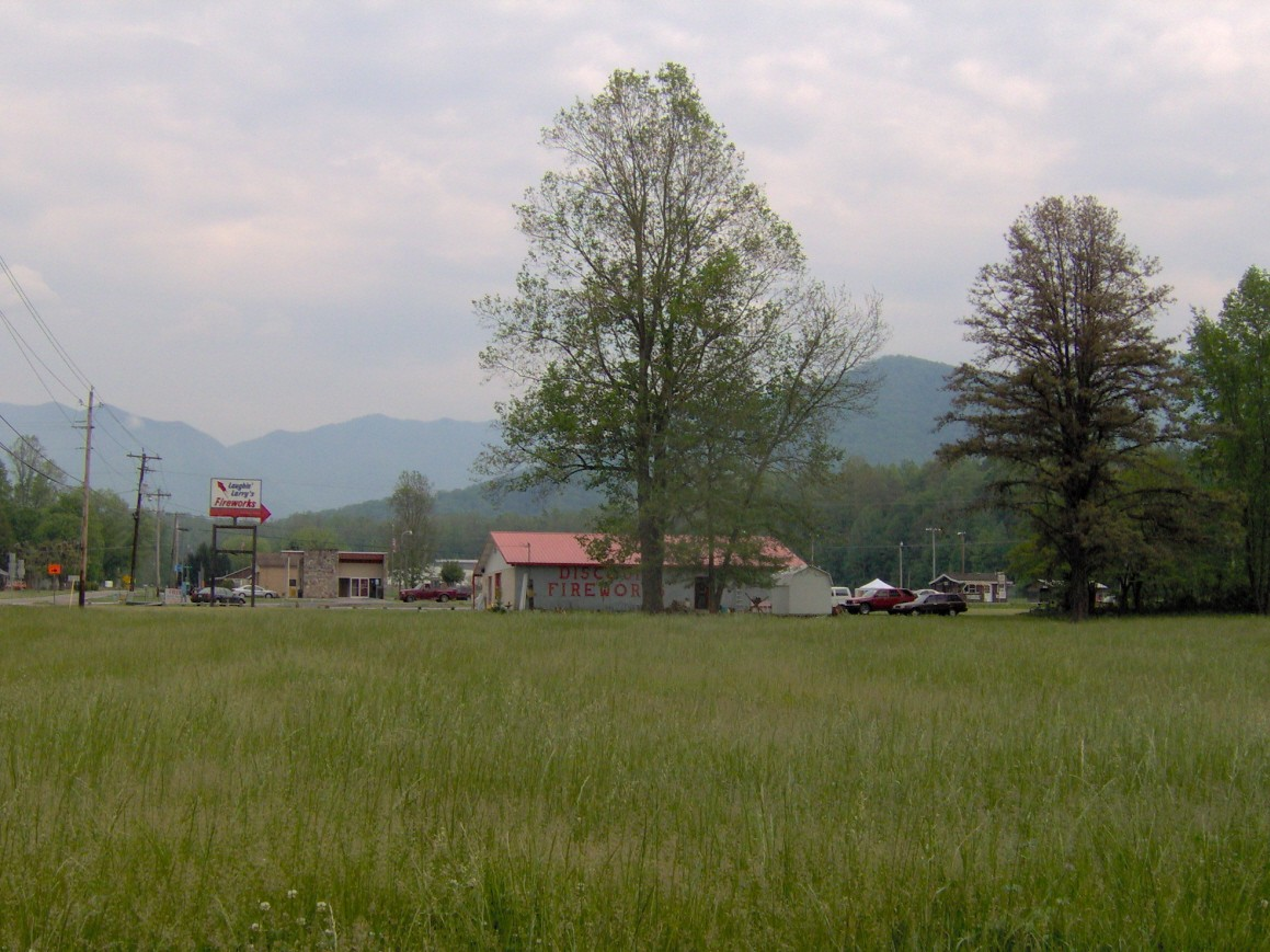 Cosby, Tennessee, near the junction of US-321 and TN-32 (the former head west to Gatlinburg, the latter heads toward North Carolina.